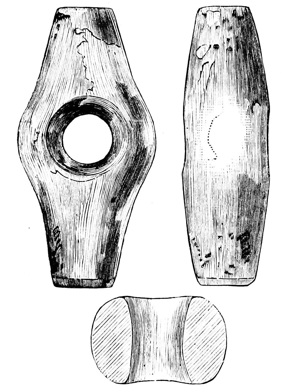 Perforated hammer of headstone